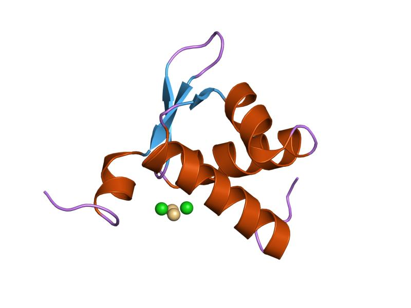 Cartoon representation of the molecular structure of protein registered with 1xmk code.